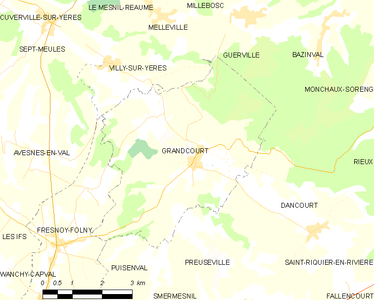 Map of French municipality Grandcourt